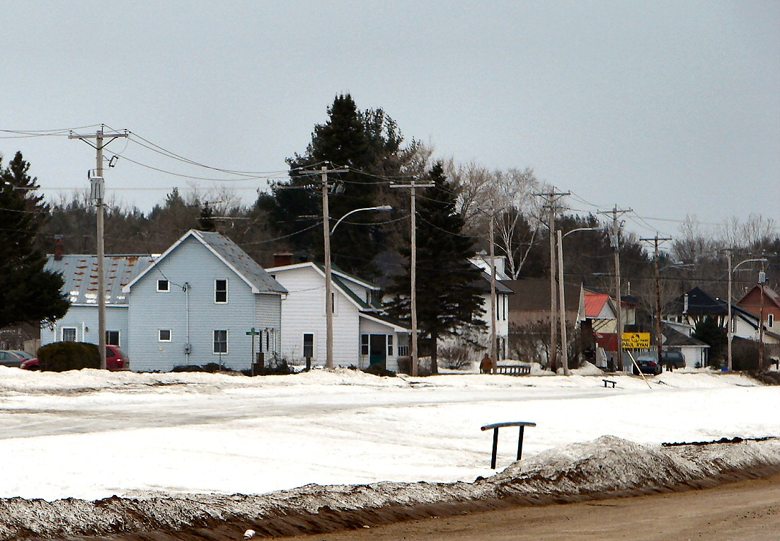 Waltham, Quebec, Canada